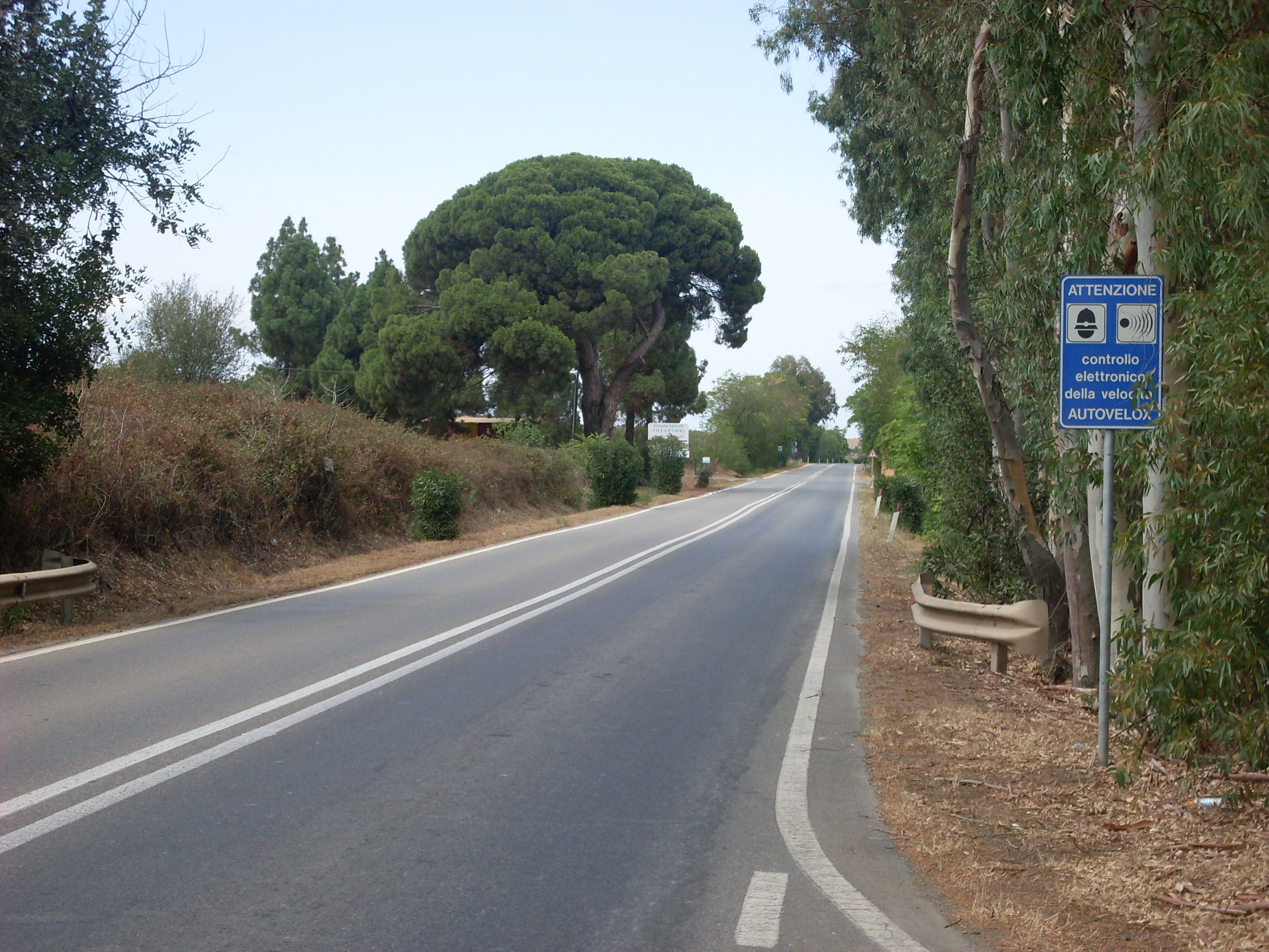 Pinus pinea in Villa d'Orri (Sarroch, Sardinia), near the Strada Statale 195 Sulcitana. Classified as 'Monumental tree' in Sardinia (Vannelli, 1994).